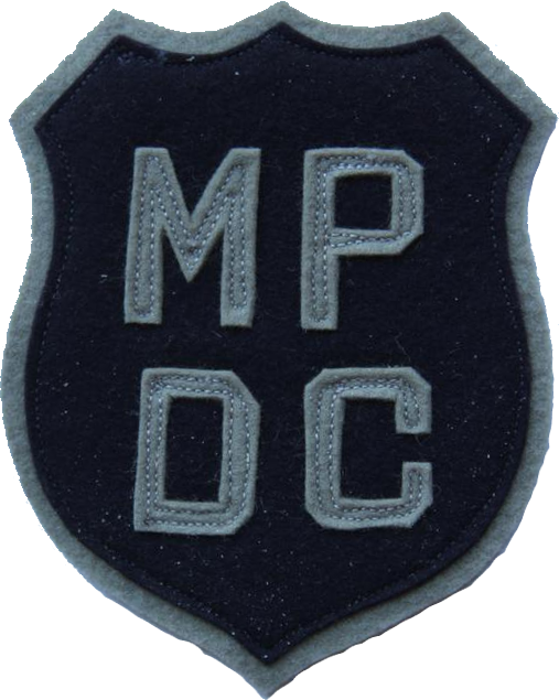 Patch of the Metropolitan Police Department of the District of Columbia (1940)